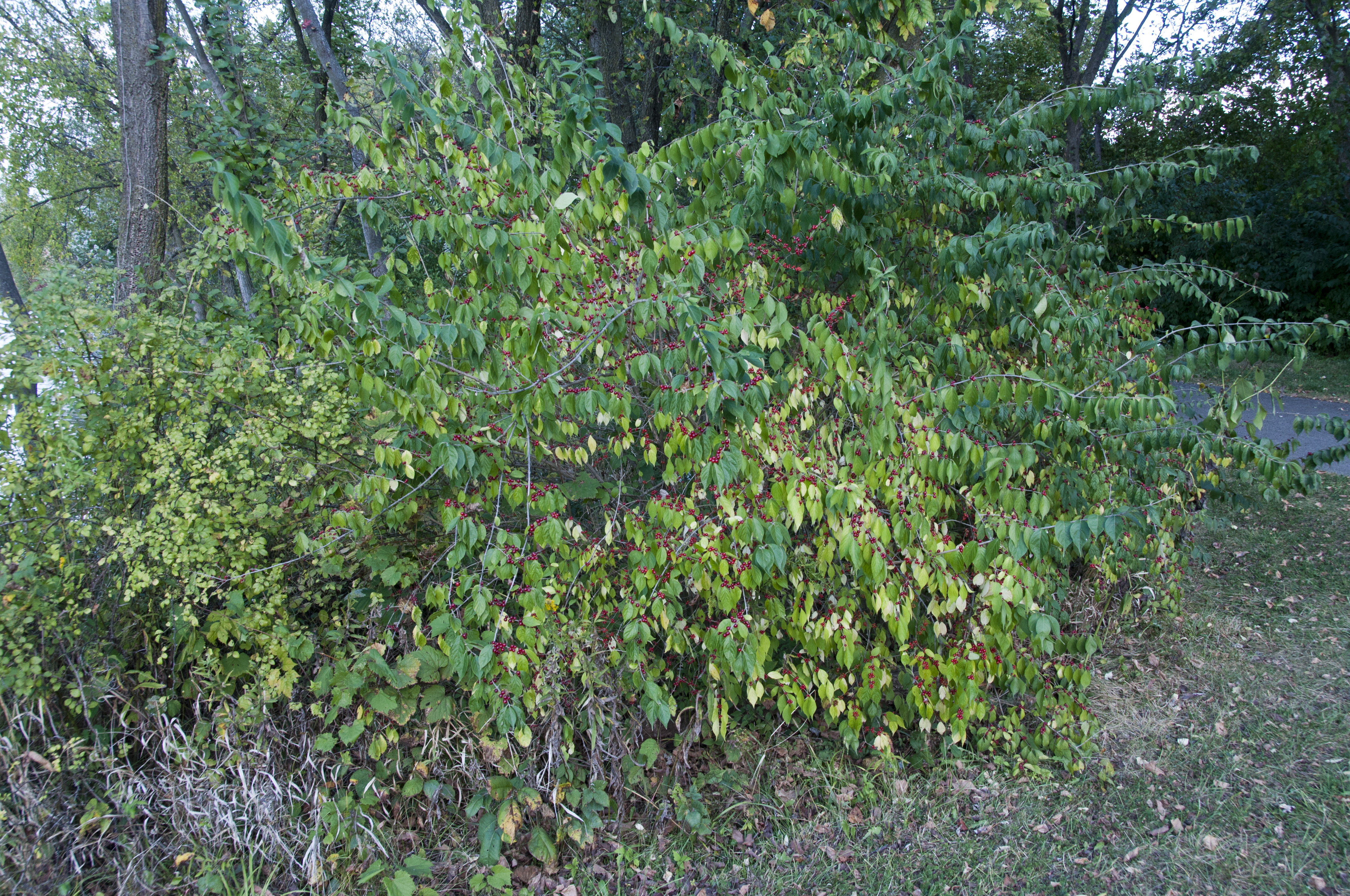 Attempting to capture an entire Morrow's Honeysuckle bush in the frame. This photo was taken in late September at Turtle Pond, Three Creeks Metro Parks (Columbus, Ohio).Lonicera morrowii also known as Morrow's Honeysuckle, or Bush Honeysuckle is considered a highly invasive species. It is even suspected that Lonicera morrowii is allelopathic.